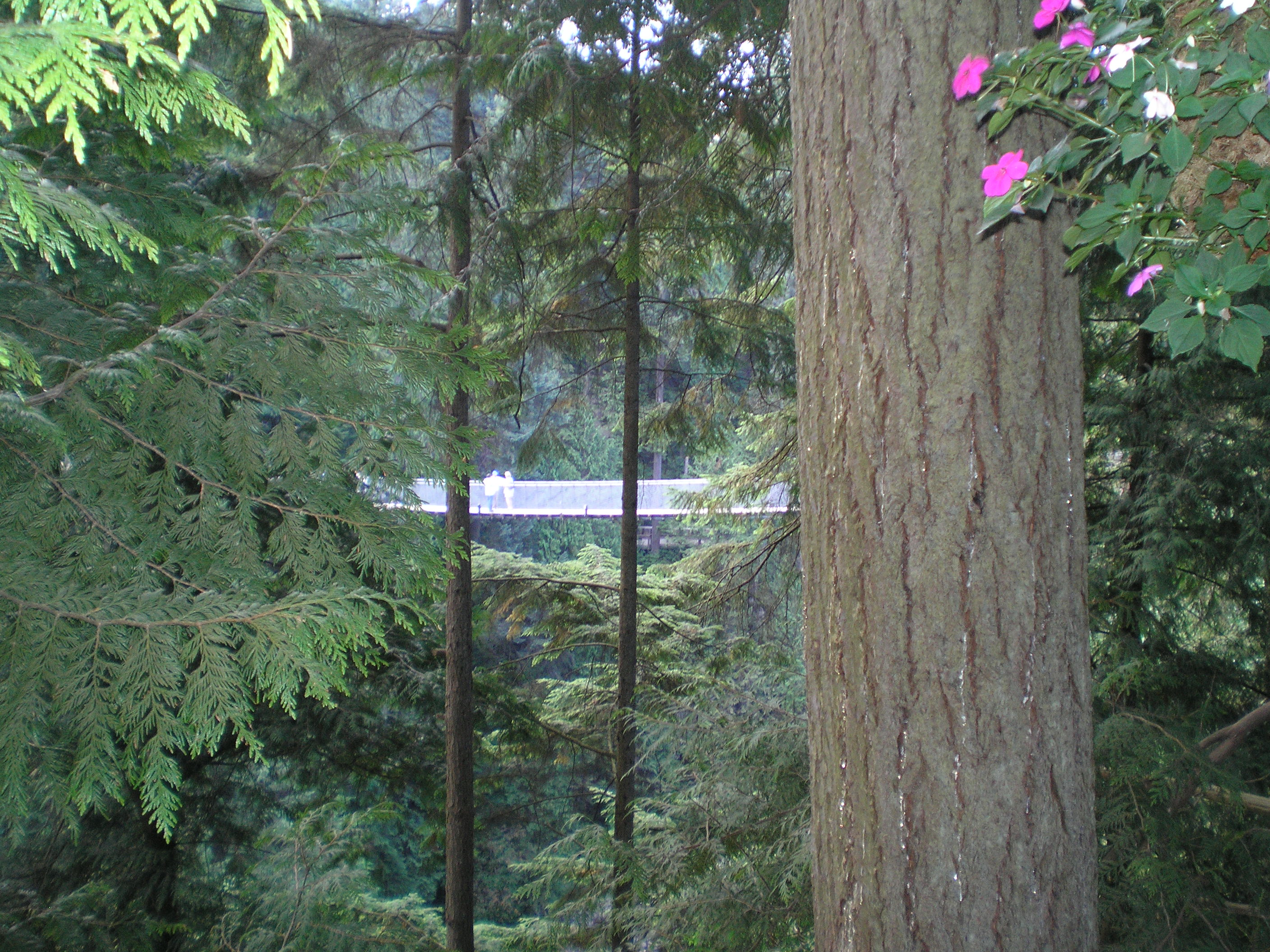 Capilano Suspension Bridge behind high trees, near Vancouver, Canada.